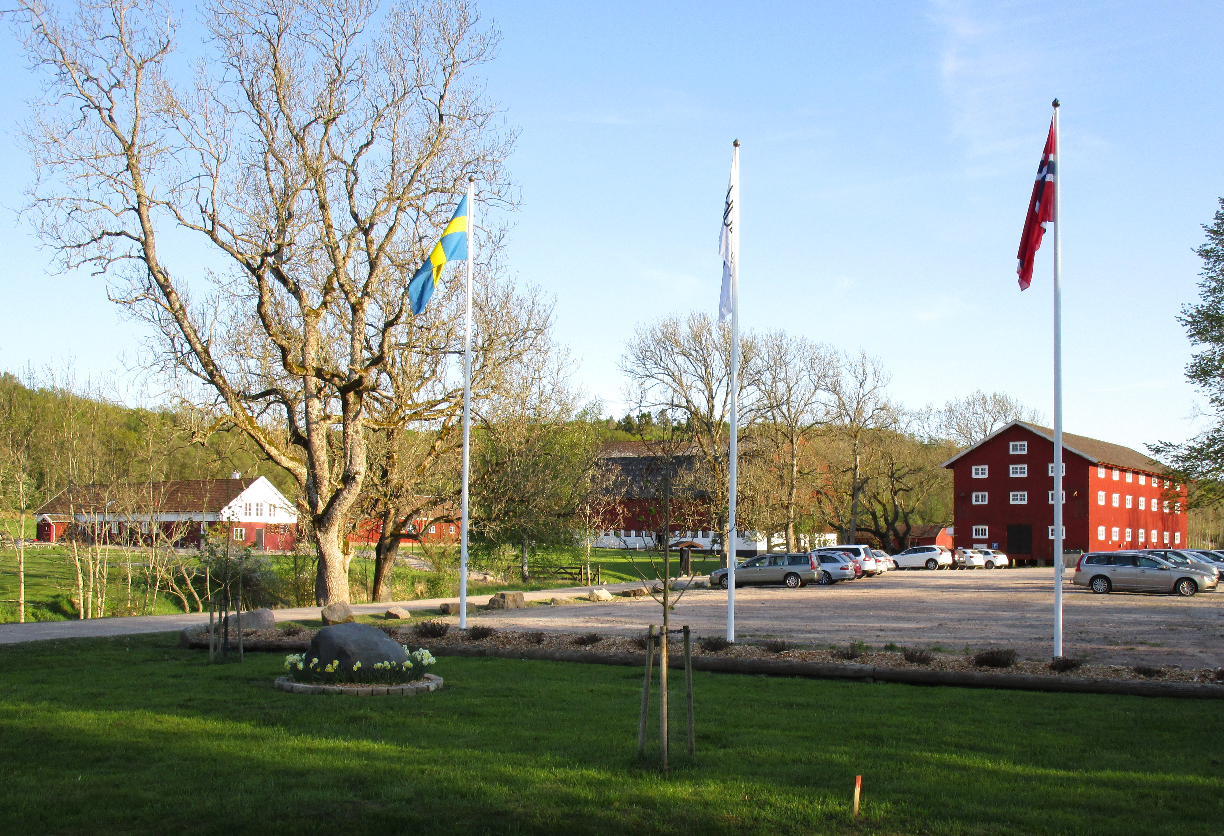 Entrance to Holma Golf Club at Holma, Lysekil Municipality, Sweden.